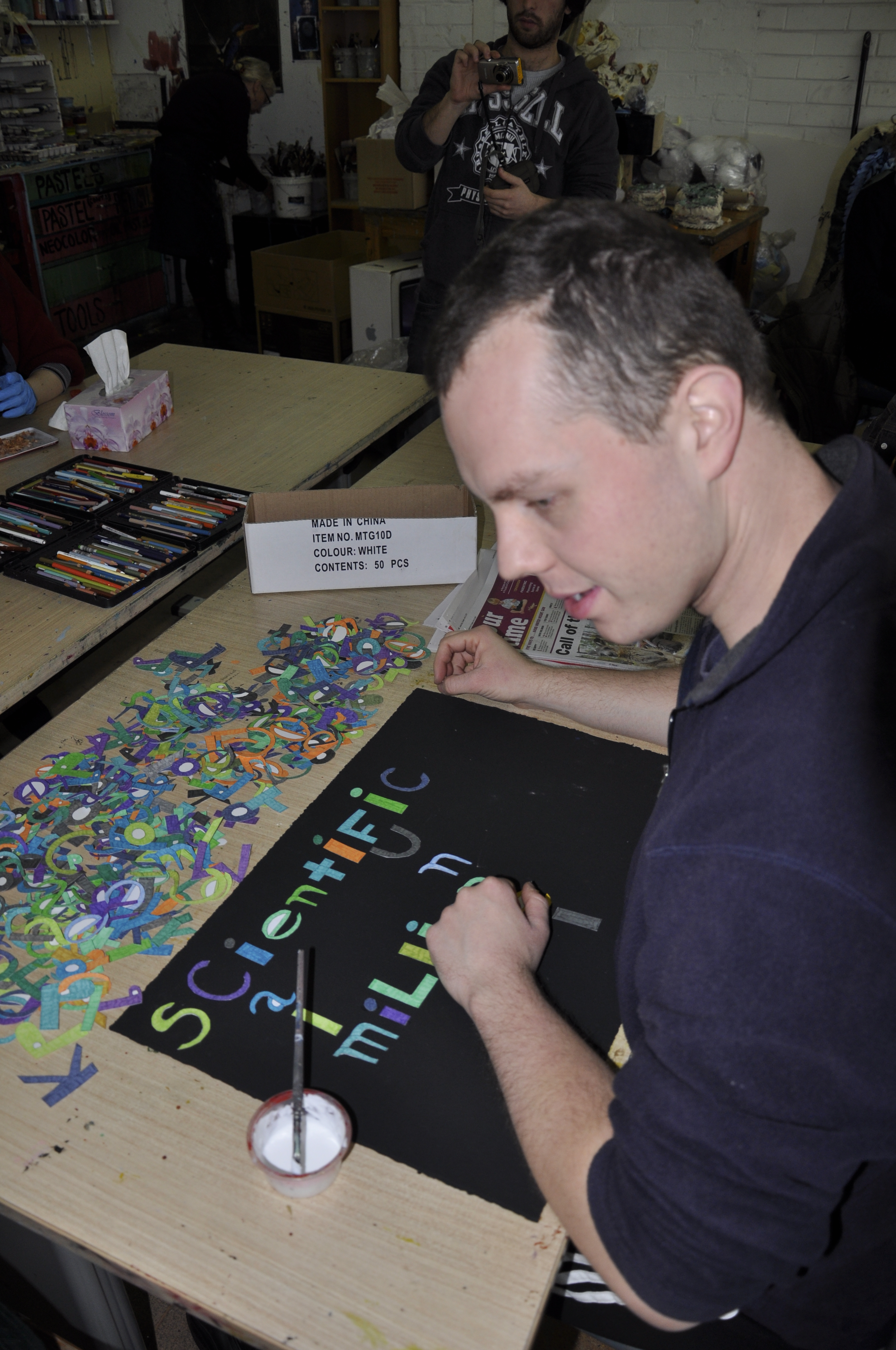 Image of Australian artist Boris Cipusev.